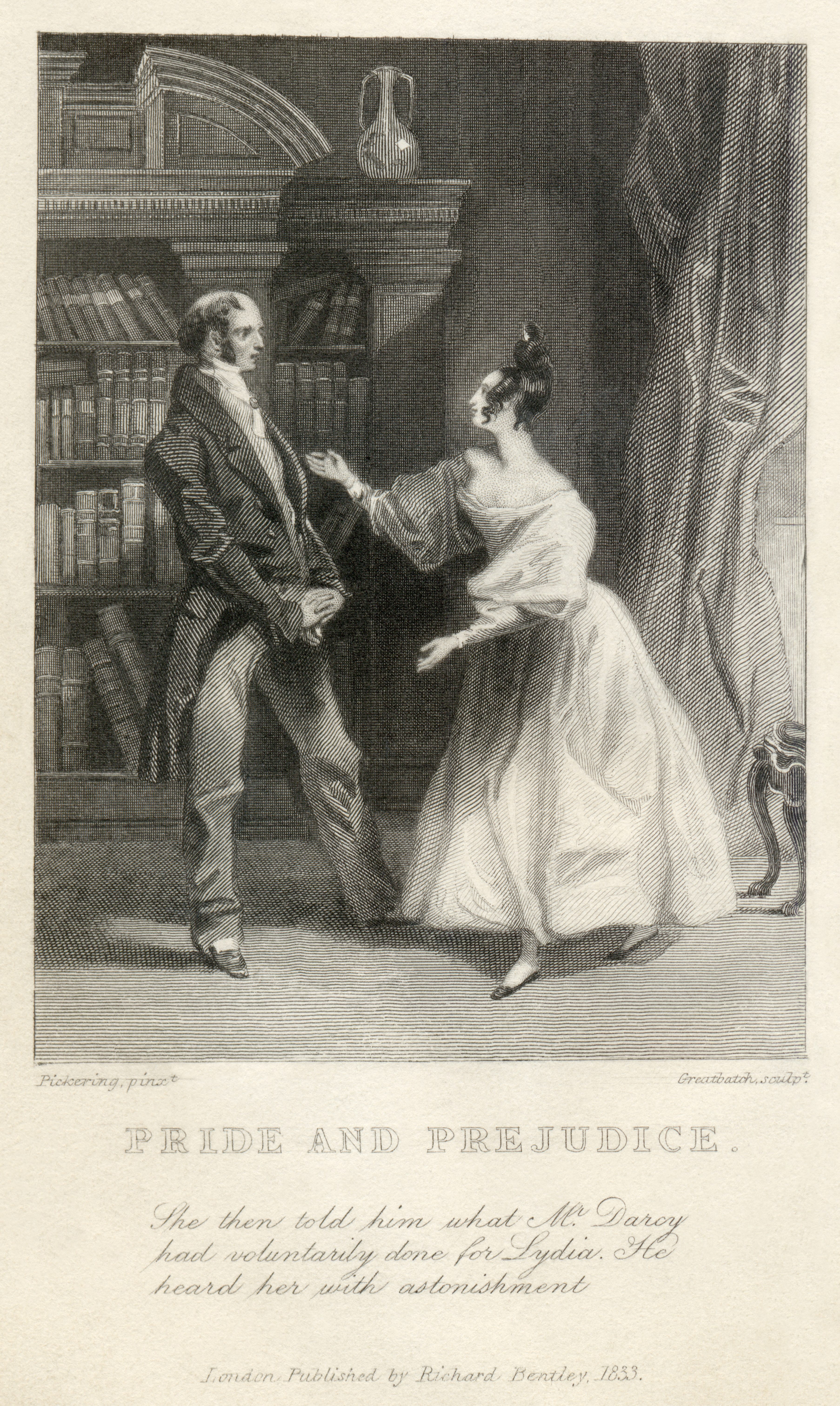 An 1833 engraving of a scene from Chapter 59 of Jane Austen's Pride and Prejudice. Mr. Bennet is on the left, Elizabeth on the right. This, along with File:Pickering - Greatbatch - Jane Austen - Pride_and_Prejudice - This is not to be borne, Miss Bennet.jpg, are the first published illustrations of Pride and Prejudice.[1] Elizabeth Bennet is shown wearing 1830's fashions (big sleeves, big skirts below a corseted narrow waist, exposed sloping shoulders) which are very different from the Empire Silhouette / Regency fashions (relatively narrow skirts, high waistline, small "puff" sleeves at the shoulders etc.) which were worn during Jane Austen's adult life.